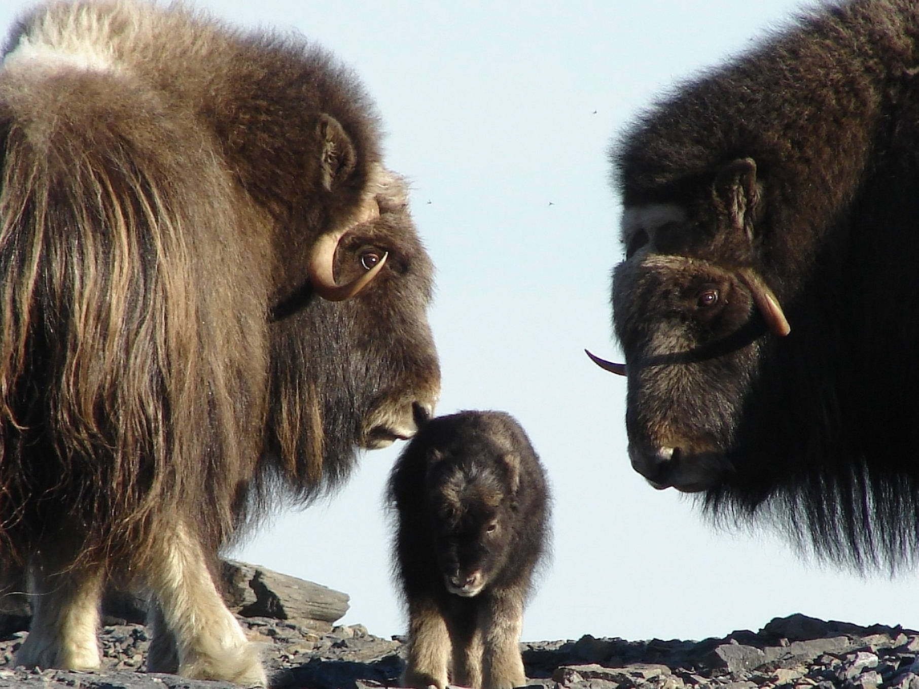 Muskox BELA Two Adults and COY by Jason Gablask